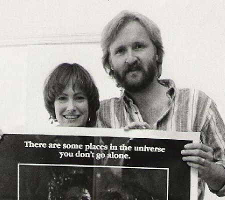 Aliens Producer Gale Anne Hurd and Writer/Director James Cameron